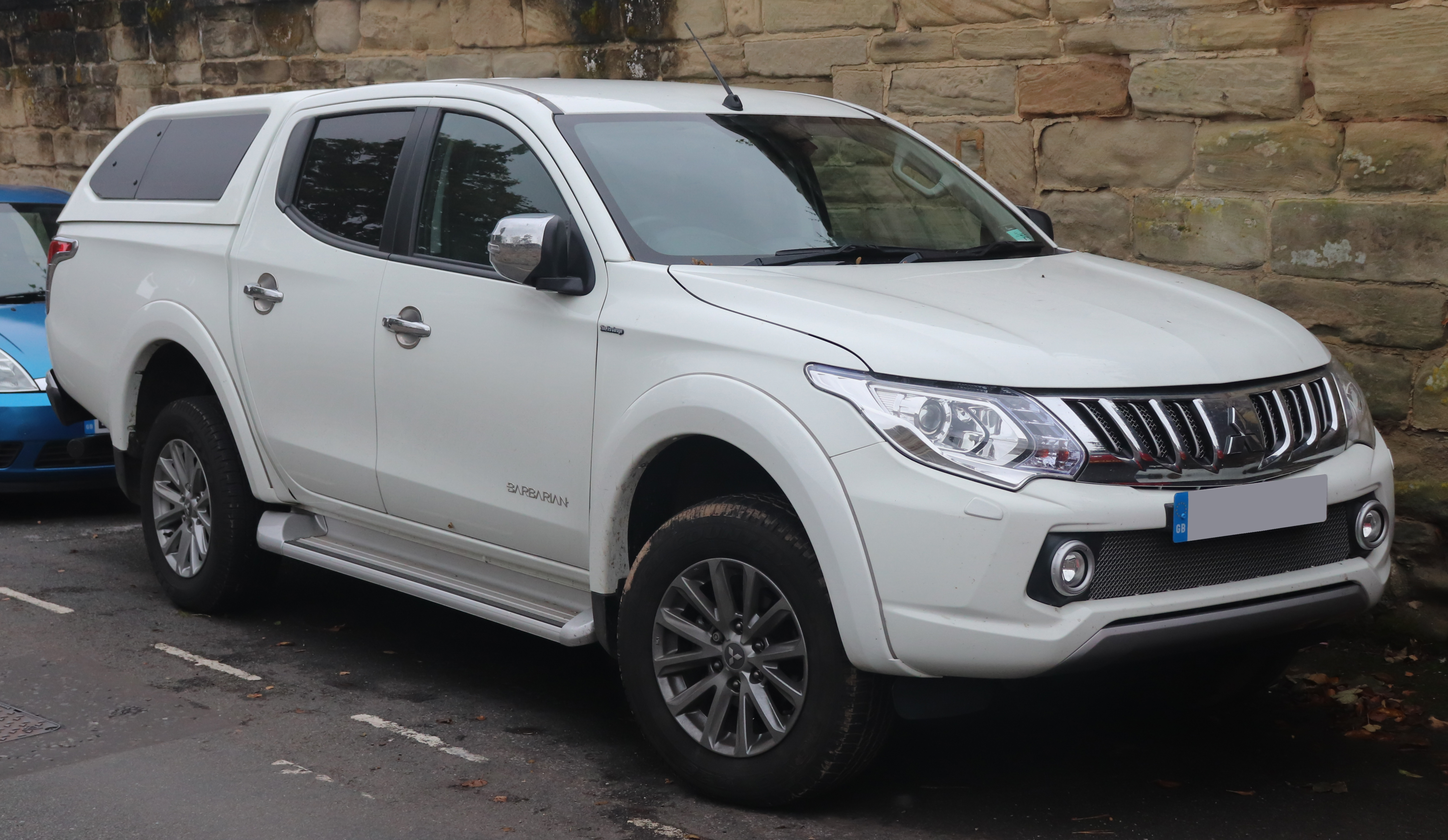 2016 Mitsubishi L200 Barbarian Di-D 2.4 Taken in Warwick